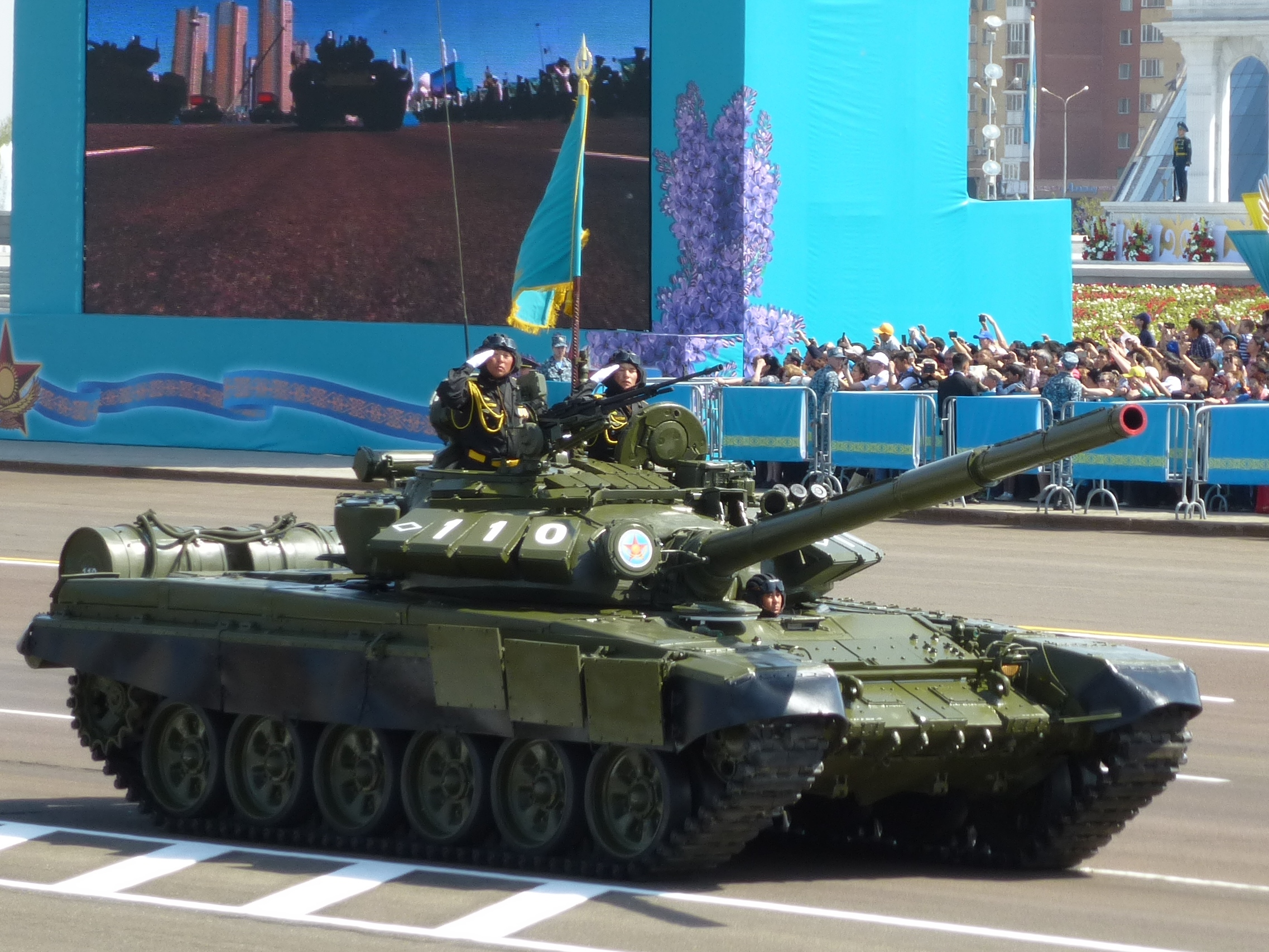 T-72BA of the Kazakh Armed Forces during a military parade in Nur-Sultan on May 7, 2015